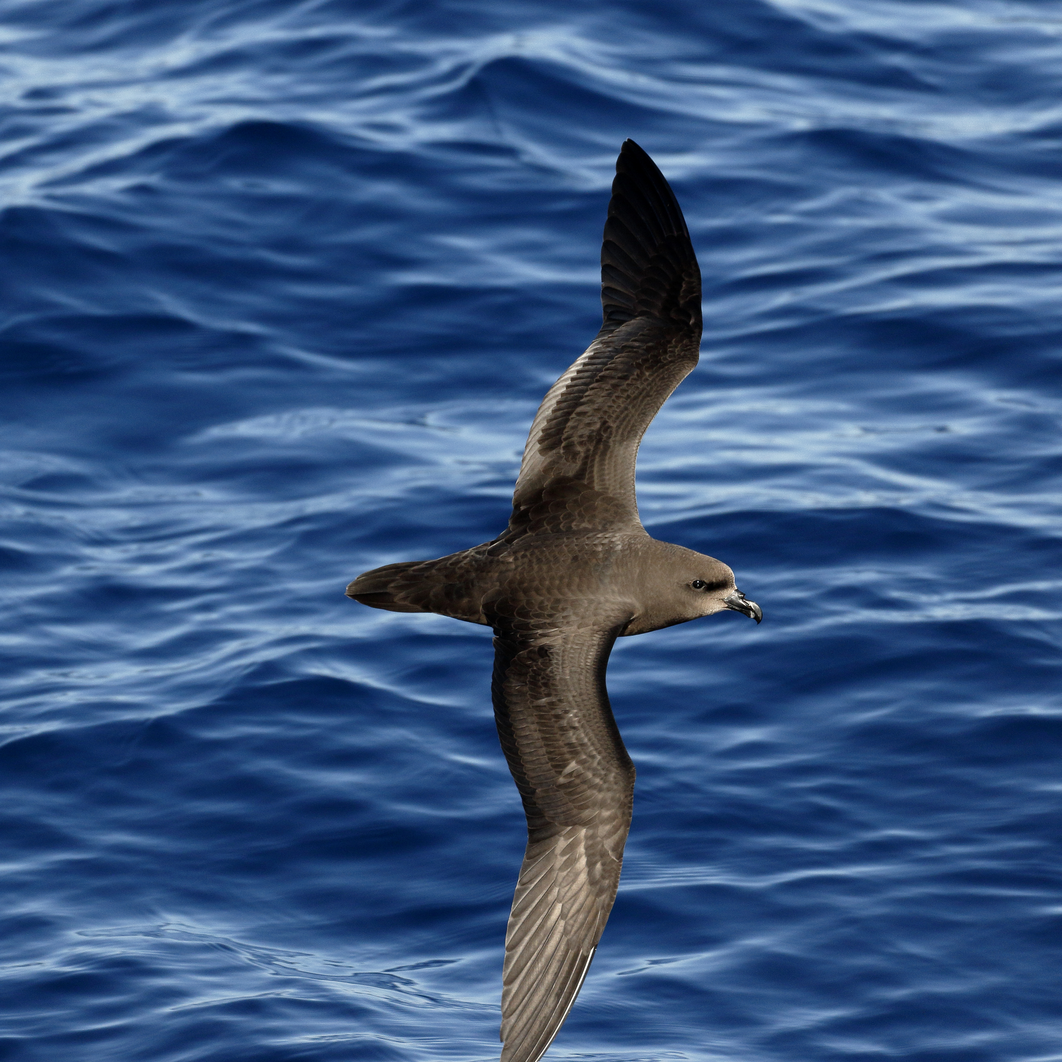 Port Fairy. Victoria.